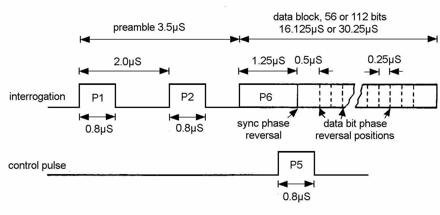 corrects an error in an existing diagram